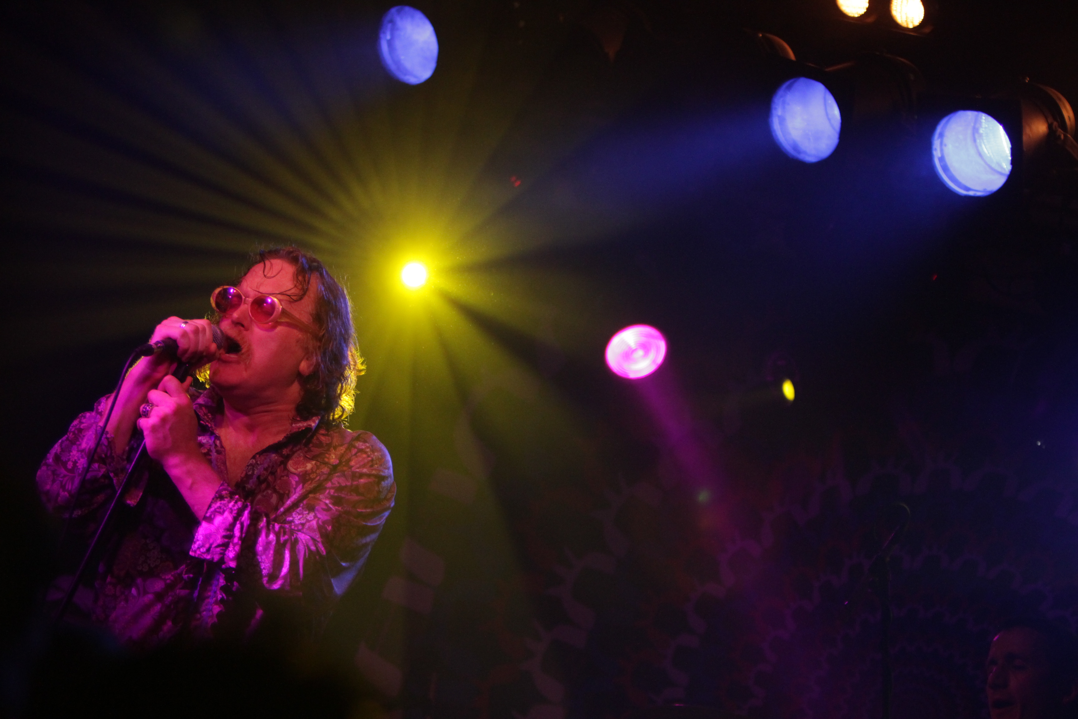 A music concert by UK band CUD on the 16th June 2012 at The Garage venue in Highbury & Islington, London